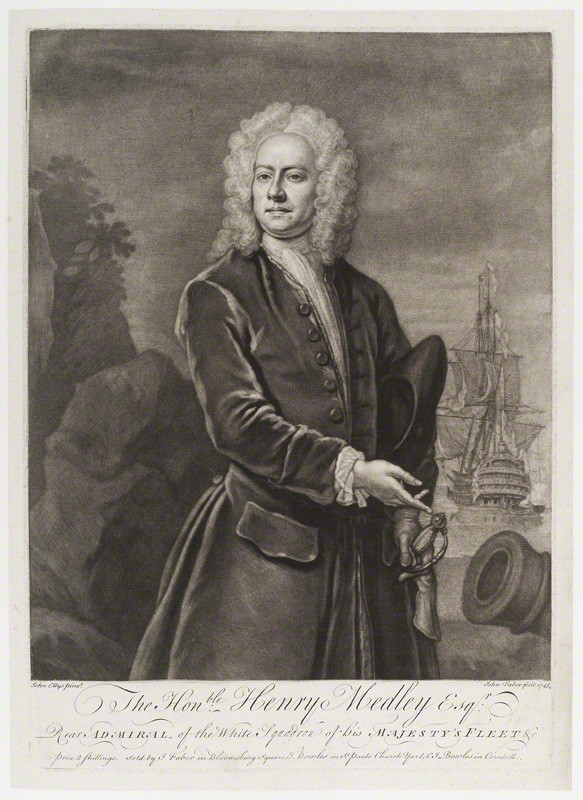 Portrait of Henry Medley (1687–1747), Royal Navy officer.